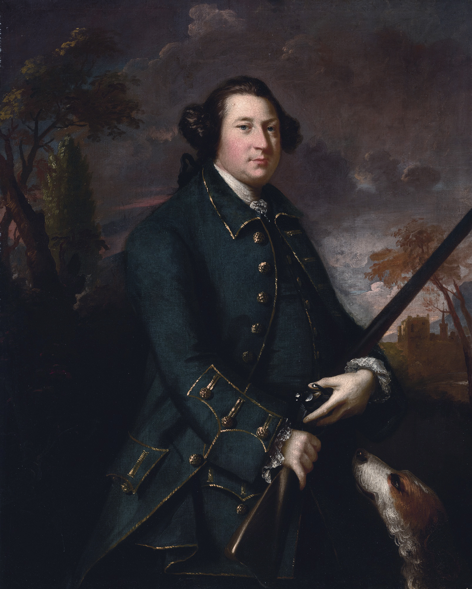 Clotworthy Skeffington, 1st Earl of Massereene (1714-1757) oil on canvas 125.1 x 100.4 cm.